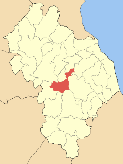 Locator map of Larisa municipality (Δήμος Λάρισας) at Larisa perfecture, Greece.